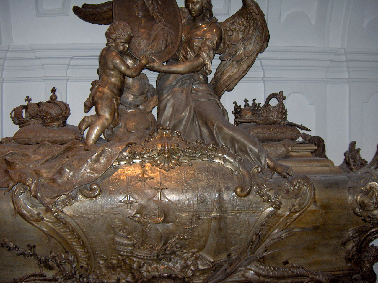 Austria, Vienna, Capuchin Church, Imperial Crypt